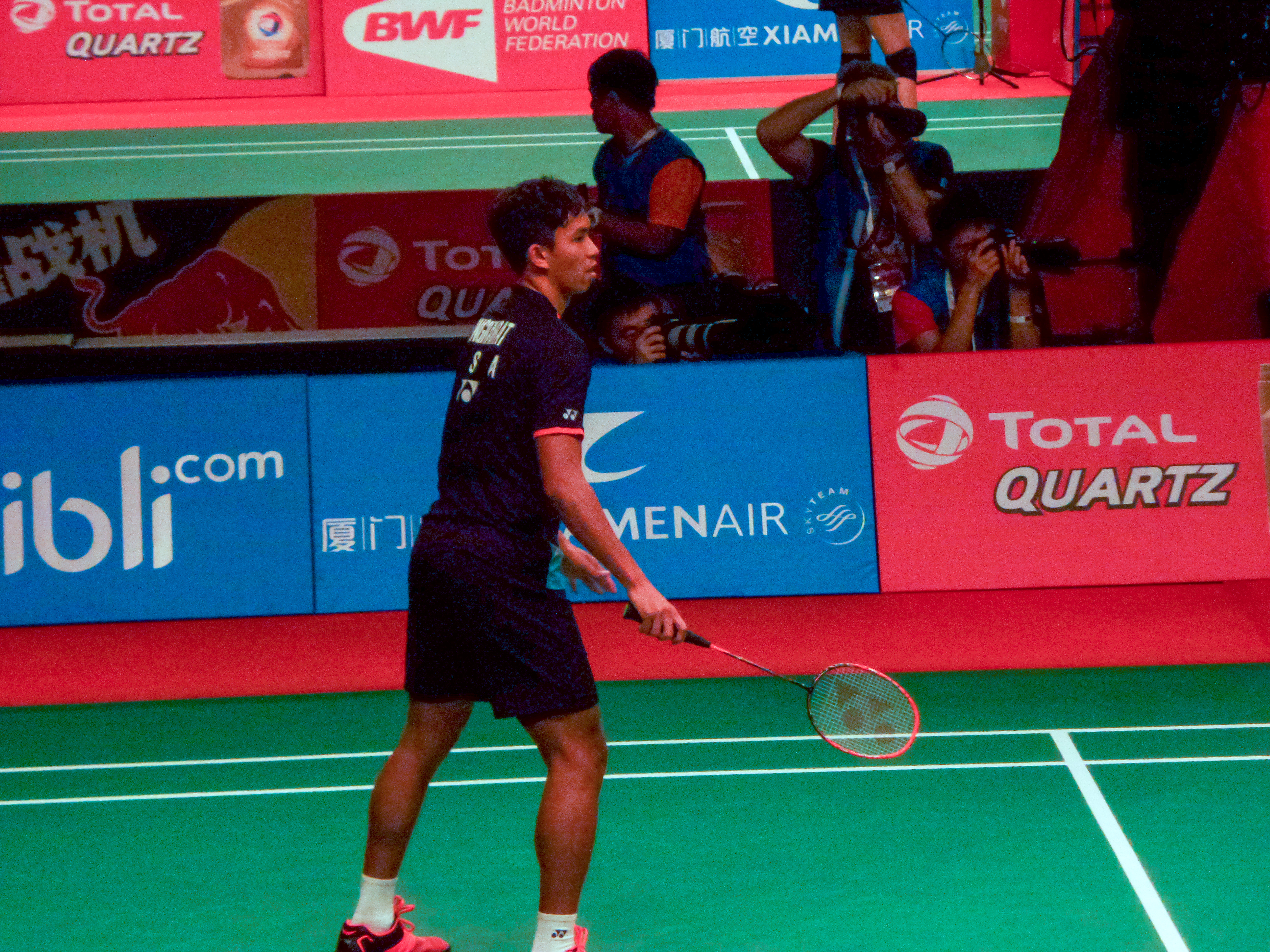 Sattawat Pongnairat in action during Day 2 of the 2015 BWF World Championships